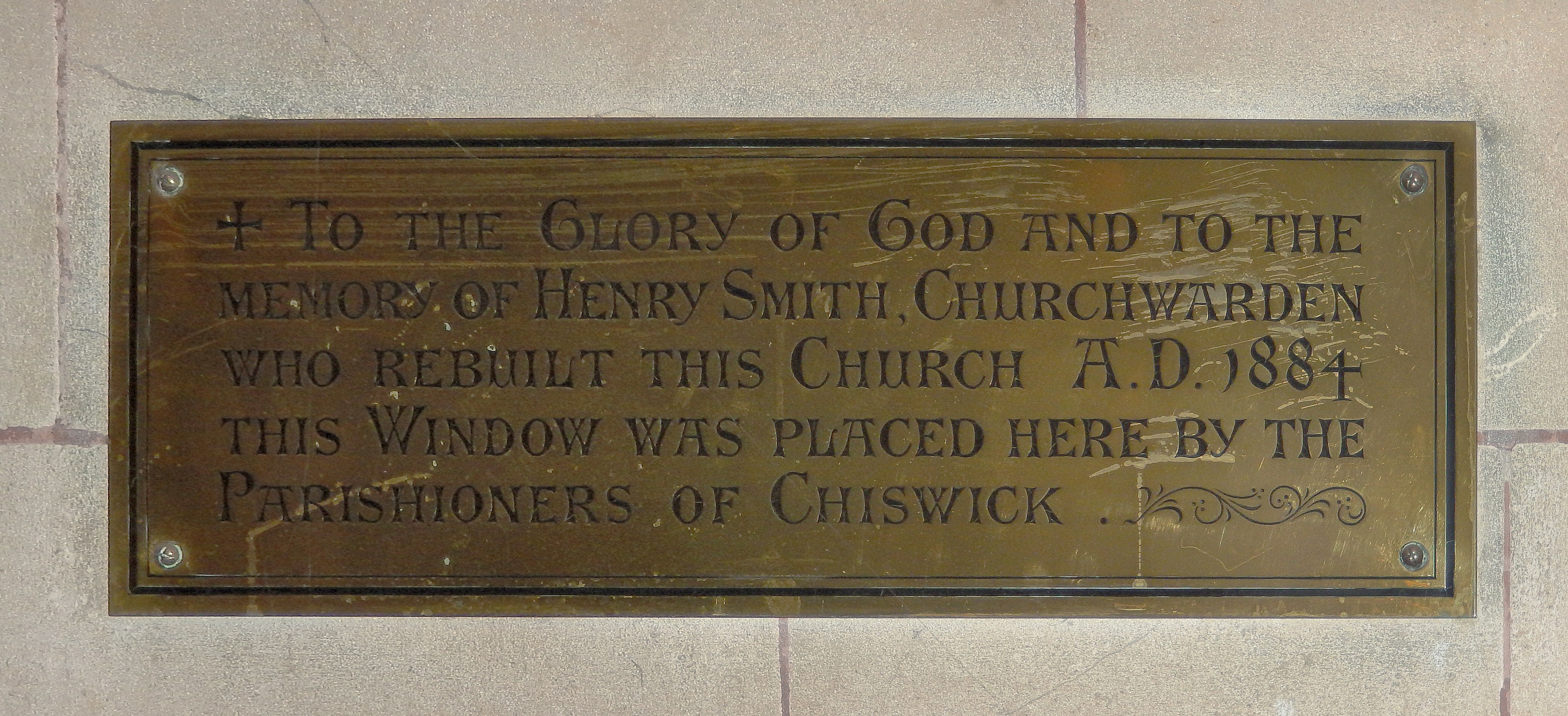 St Nicholas Chiswick rebuilt by Henry Smith churchwarden 1884 brass plate